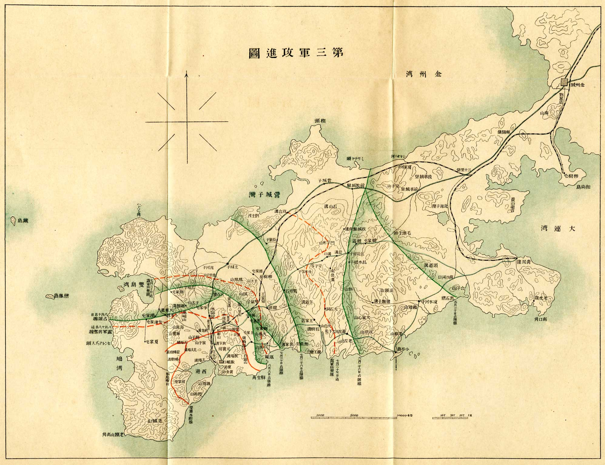 Map of the Advancement of the 3rd Army